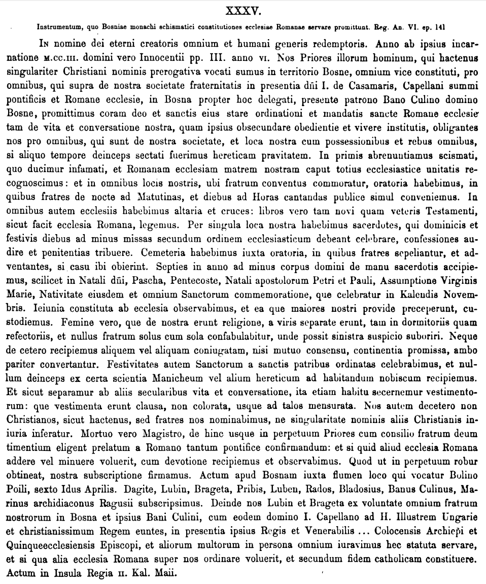 The statement of Bilino polje, an 13th century document in which Bosnian ban Kulin and superiors of the Church of Bosnia declared that they renouncing their heresy.